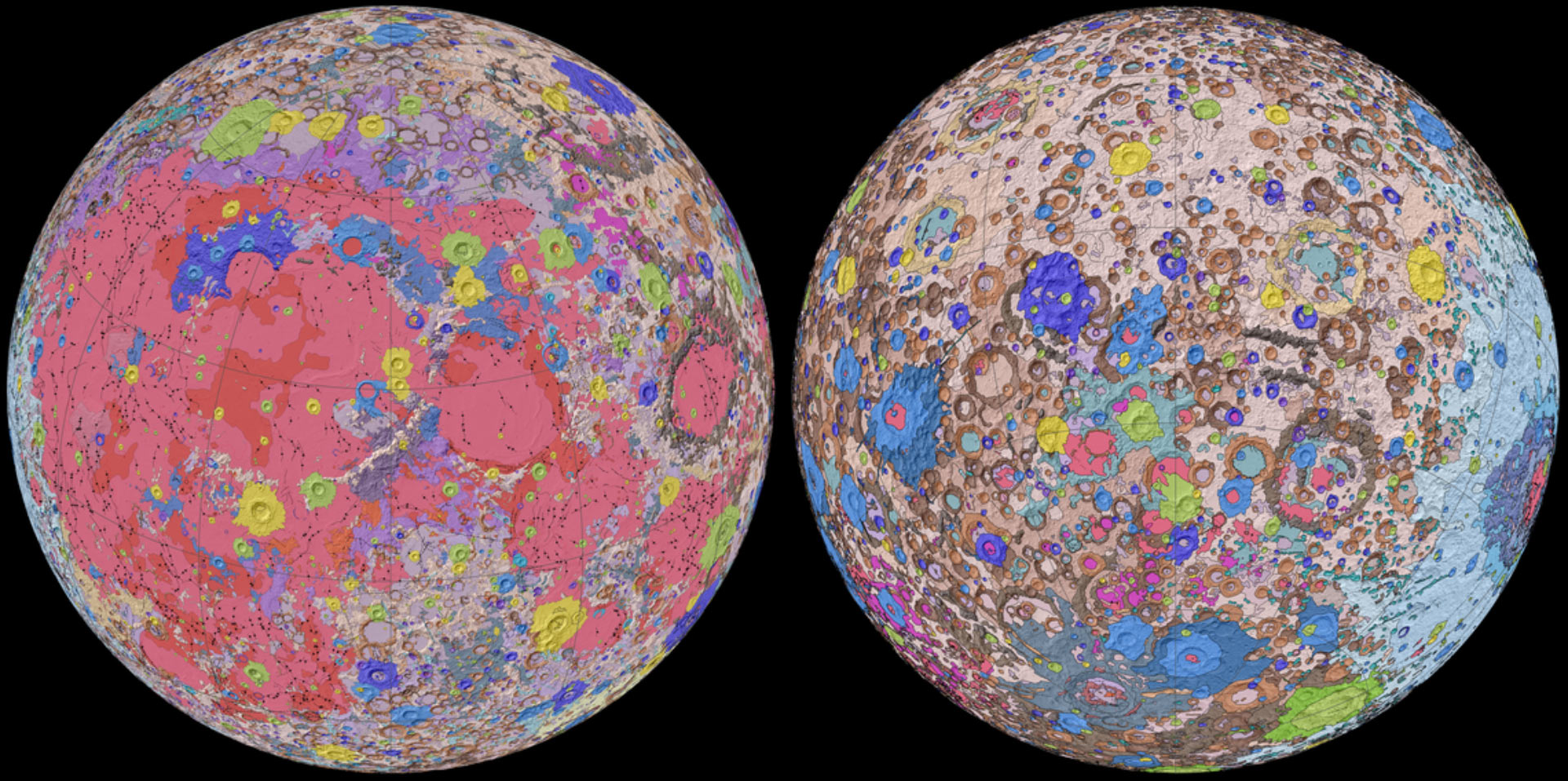 Geologic Map of the Moon